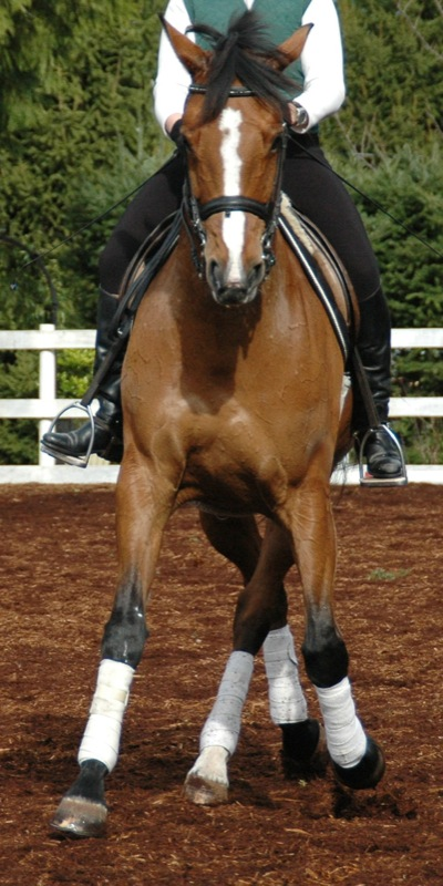 Canadian paralympic rider, Karen Brain, schooling her horse VDL Odette. They perform "half-pass", a kind of lateral movements seen in dressage.